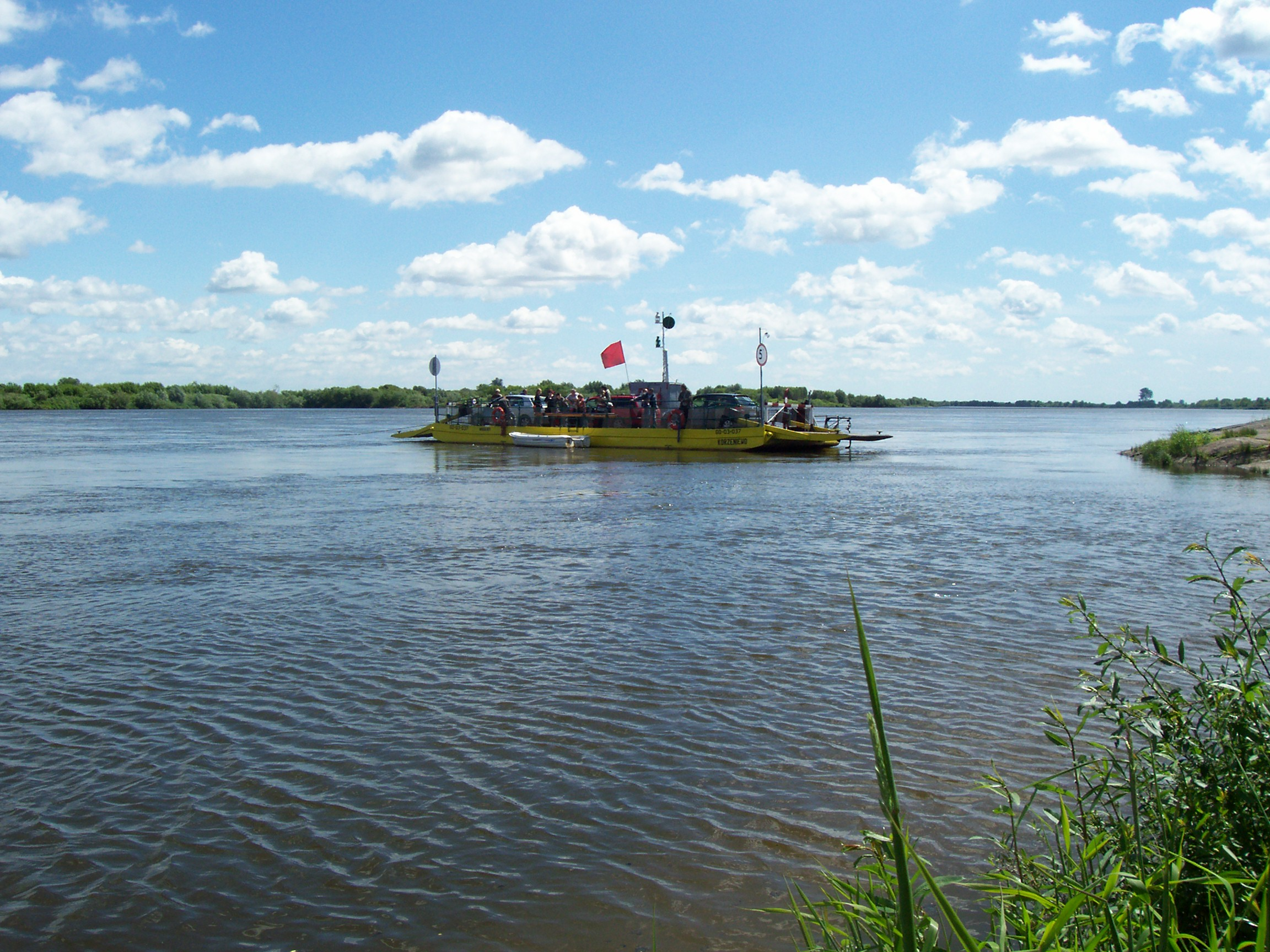 Ferry on the Vistula in Gniew, Poland